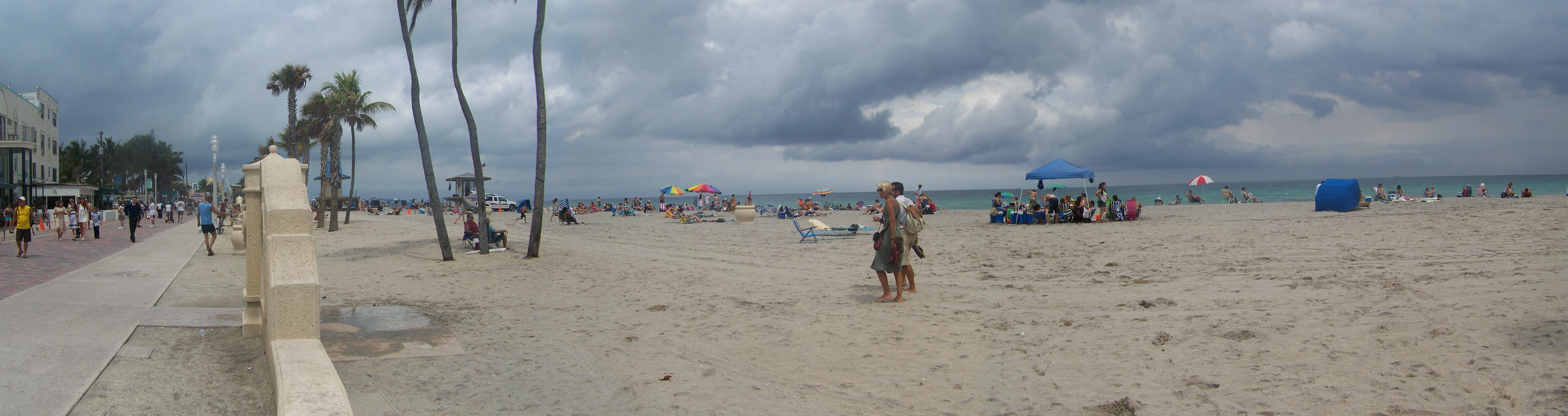 Panorama of the Hollywood Beach boardwalk — in Hollywood, Florida.